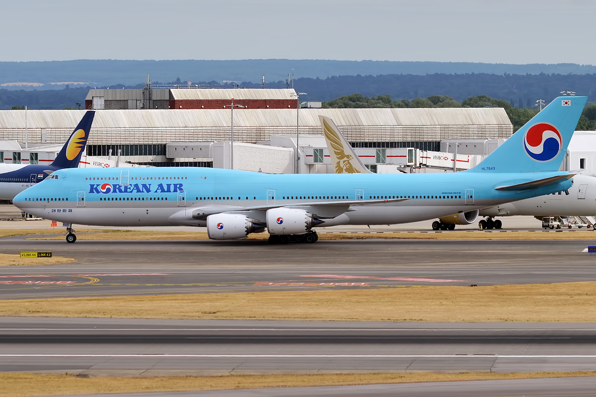 Korean Air, HL7643, Boeing 747-8B5